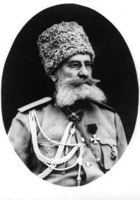 Russian General of the infantry Georgy Eduardovich Berkhman (1916).